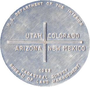 Plaque on Four Corners monument. Part of new self-made picture dated 29 May 2009.